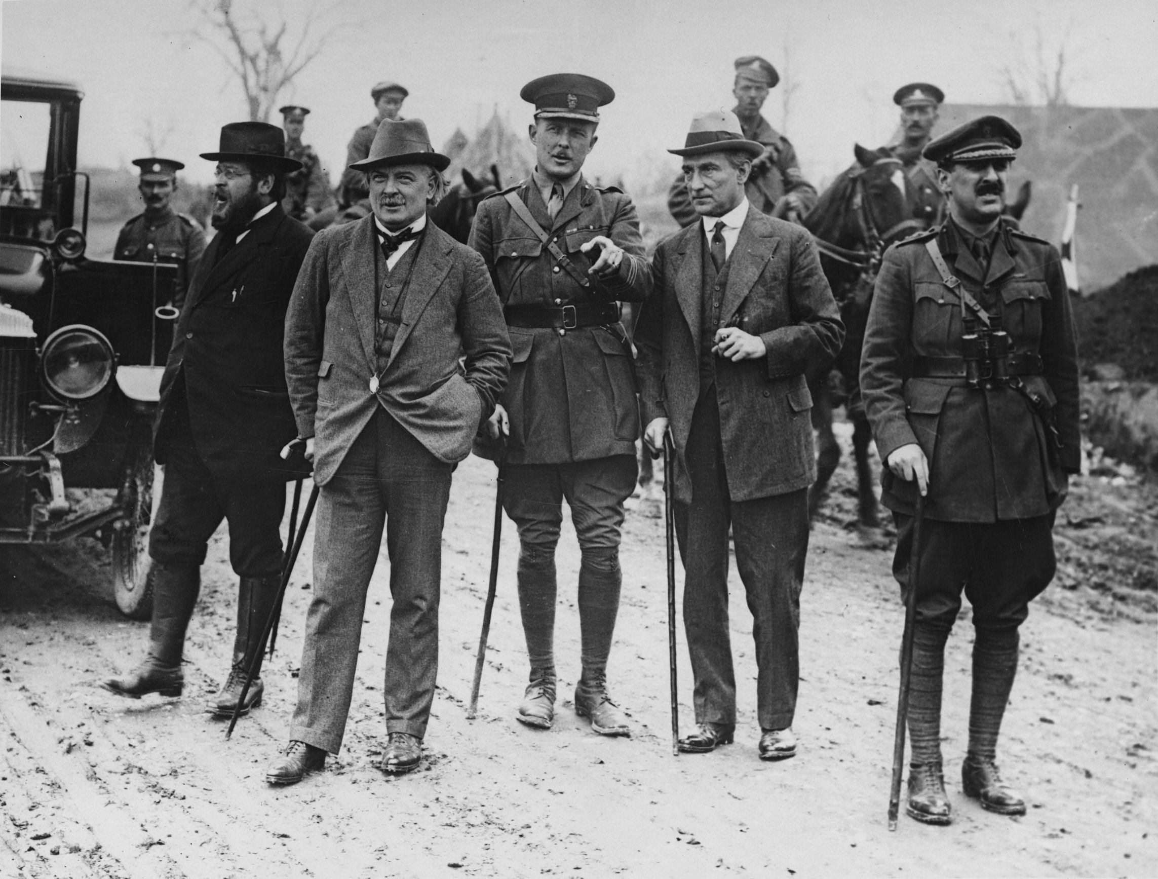 Mr. Lloyd George, Lord Reading and M. Albert Thomas visiting the Front, France.